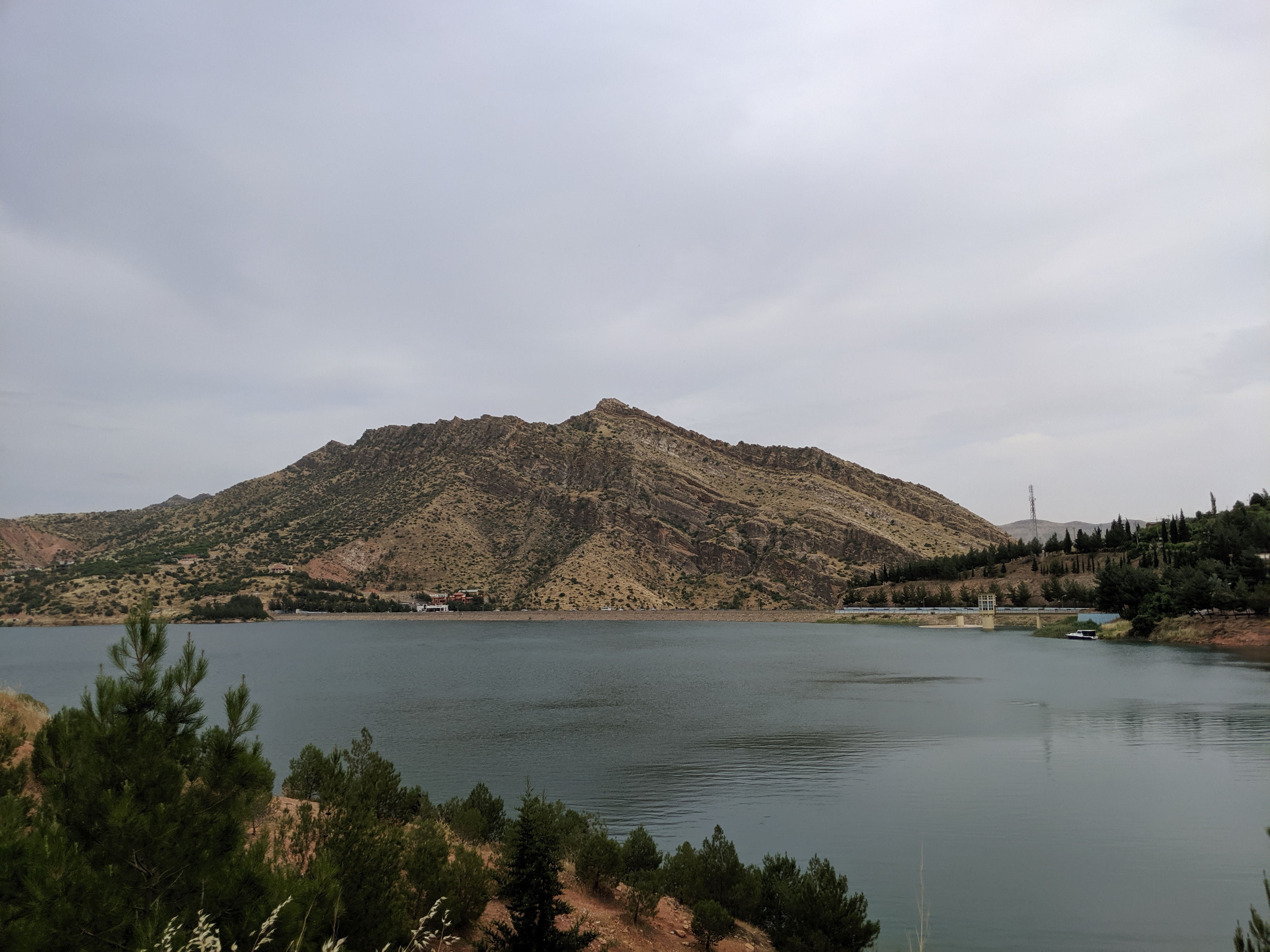 Dam located Duhok, Iraqi Kurdistan